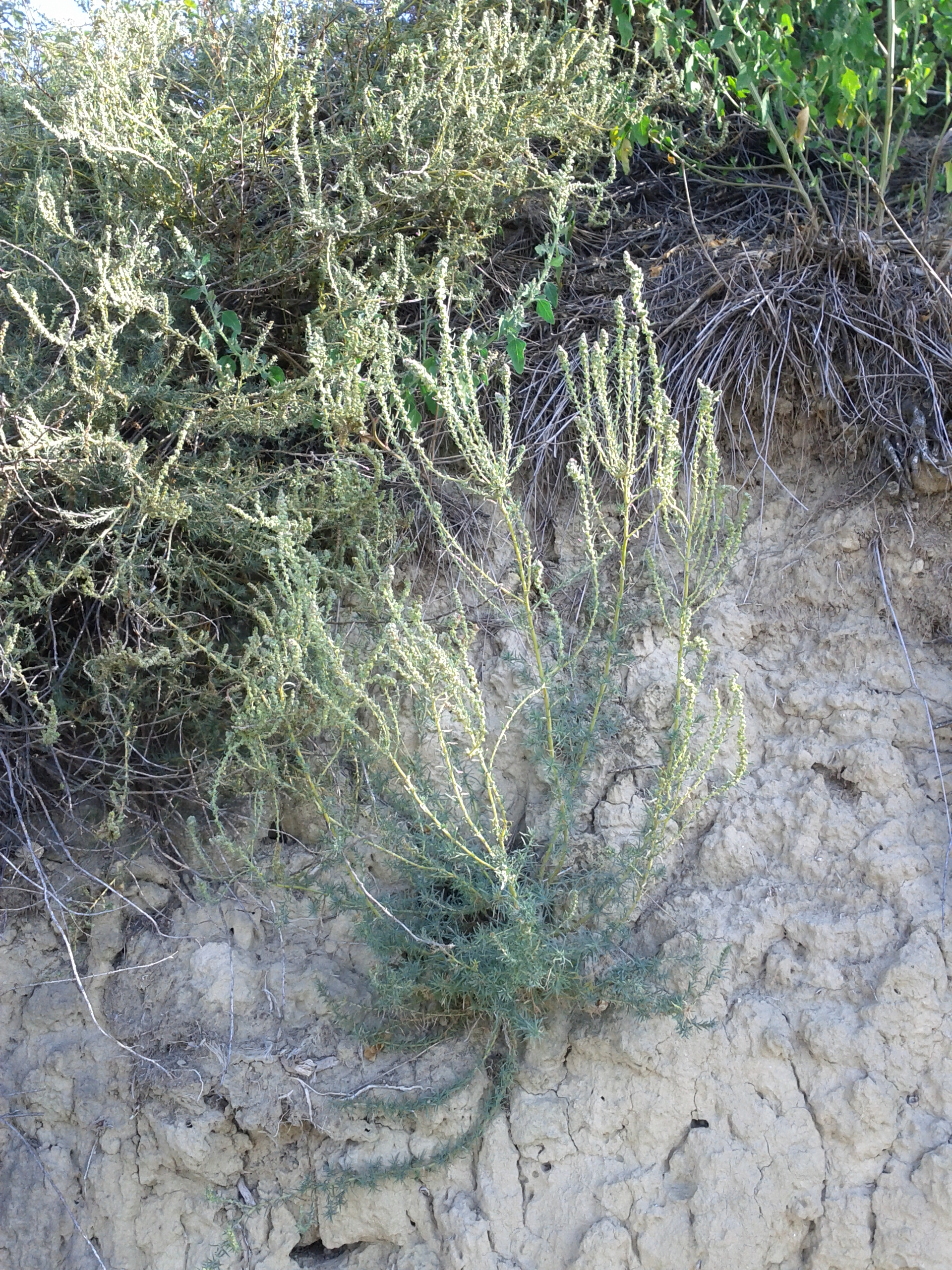 Habitus Taxonym: Bassia prostrata ss Fischer et al. EfÖLS 2008 ISBN 978-3-85474-187-9 Location: near Jetzelsdorf, district Hollabrunn, Lower Austria - ca. 275 m a.s.l. Habitat: Loess wall among wine yards